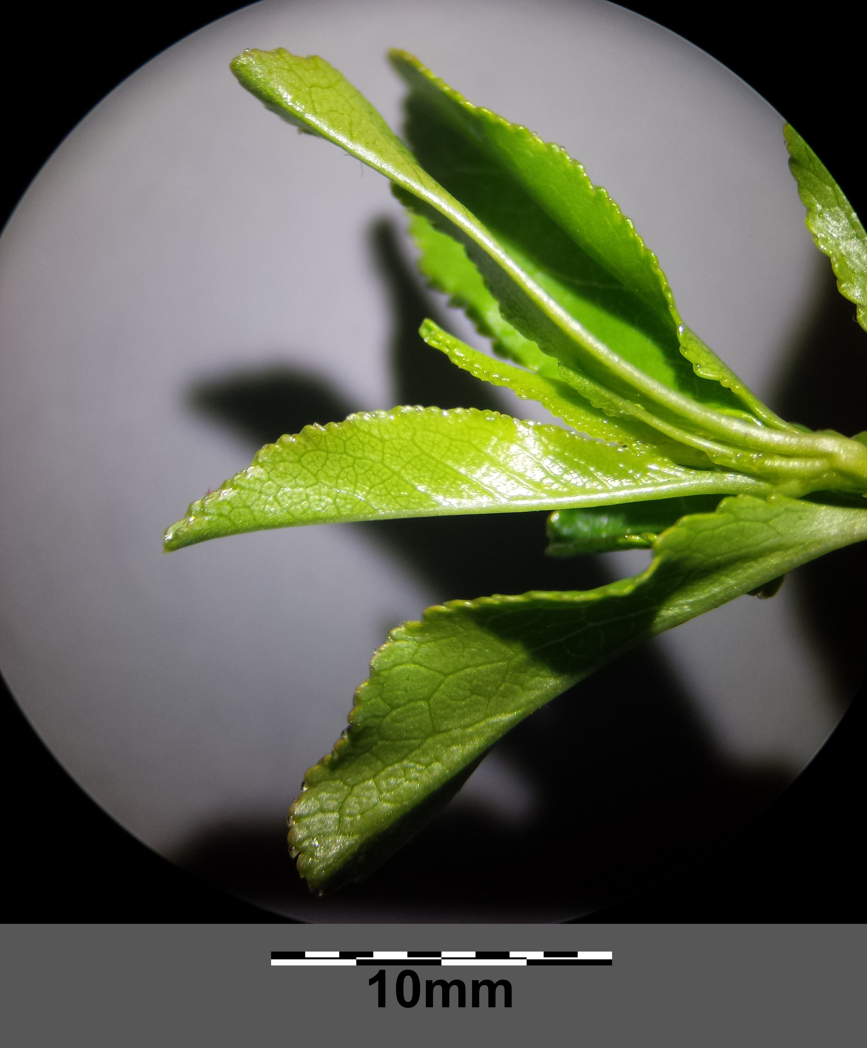 Short shoot with leaves - leaves folded in bud Taxonym: Prunus fruticosa ss Fischer et al. EfÖLS 2008 ISBN 978-3-85474-187-9 Location: Altenbergen to the North of Ladendorf, district Mistelbach, Lower Austria - ca. 290 m a.s.l. Habitat: slope